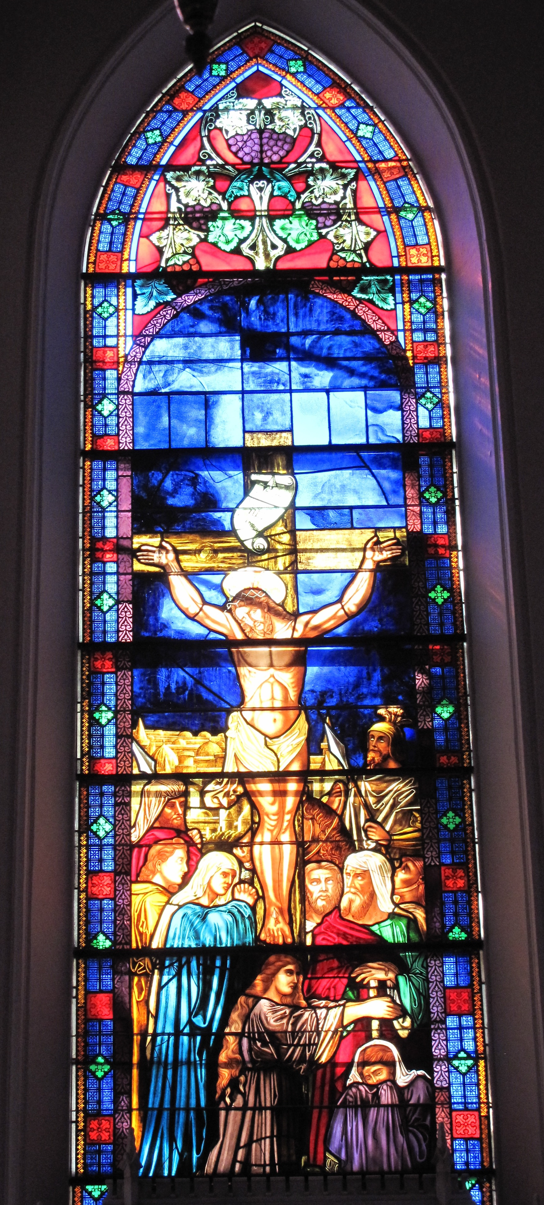 The Crucifixion Window at St. Matthew's Lutheran Church in Charleston, South Carolina by Henry E. Sharp & Sons, 1872.